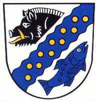 Coat of arms of Nobitz